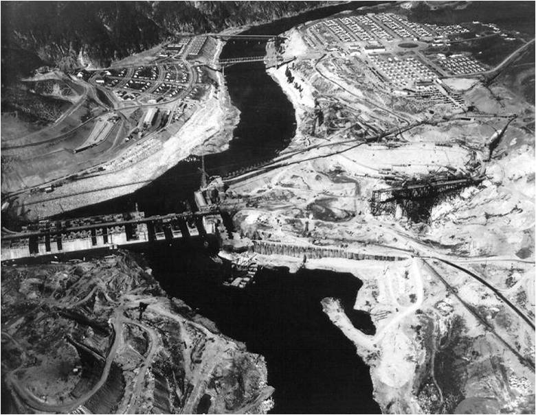 A view of the east cofferdam during construction of the Grand Coulee Dam.